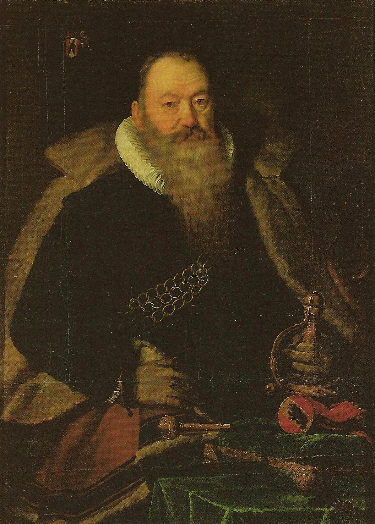 Johann von Erlach